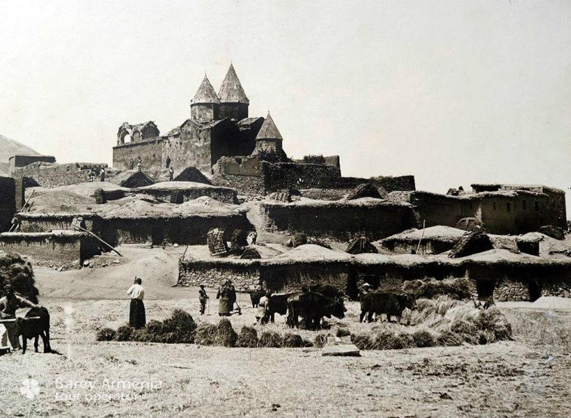 The Narekavank monastery just south of Lake Van in modern eastern Turkey.